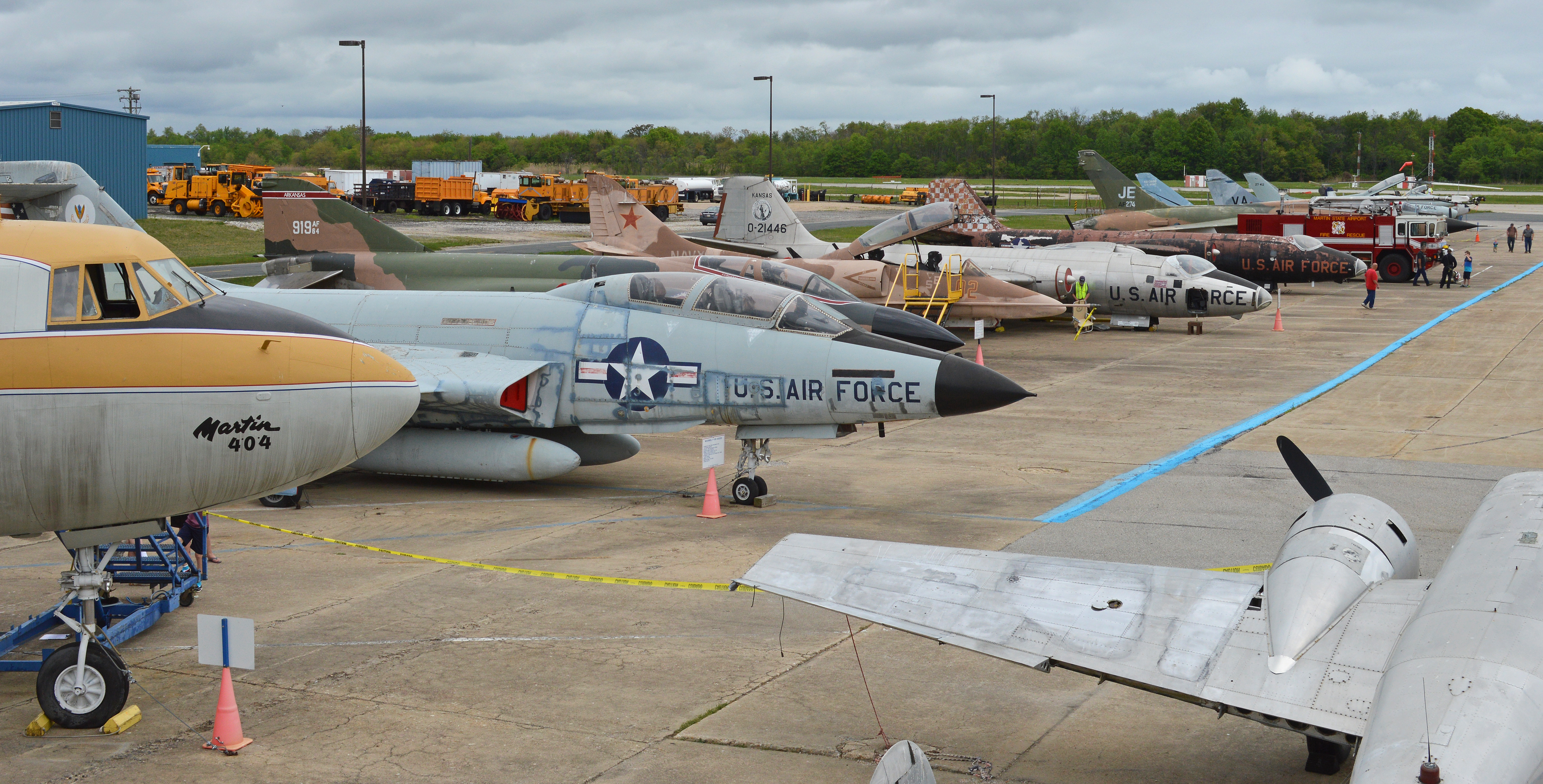 This is the Strawberry Point Flightline at the Maryland Aviation Museum. The flightline is where all of the museums aircraft are displayed and is accessed by a shuttle bus service from the main museum. Seen here from left to right:- Martin 4-0-4 '40400' (N259S) McDonnell F-101B Voodoo '80303', McDonnell F-4C Phantom II '64-919', Douglas TA-4J Skyhawk '153525 / 02', Martin RB-57A Canberra '0-21446', Martin RB-57A Canberra '0-21467' and Republic F-105G Thunderchief '274 / JE'. Bottom right is Beech D.18S (N4DH) under restoration. Martin State Airport, Maryland, USA. 09-5-2015